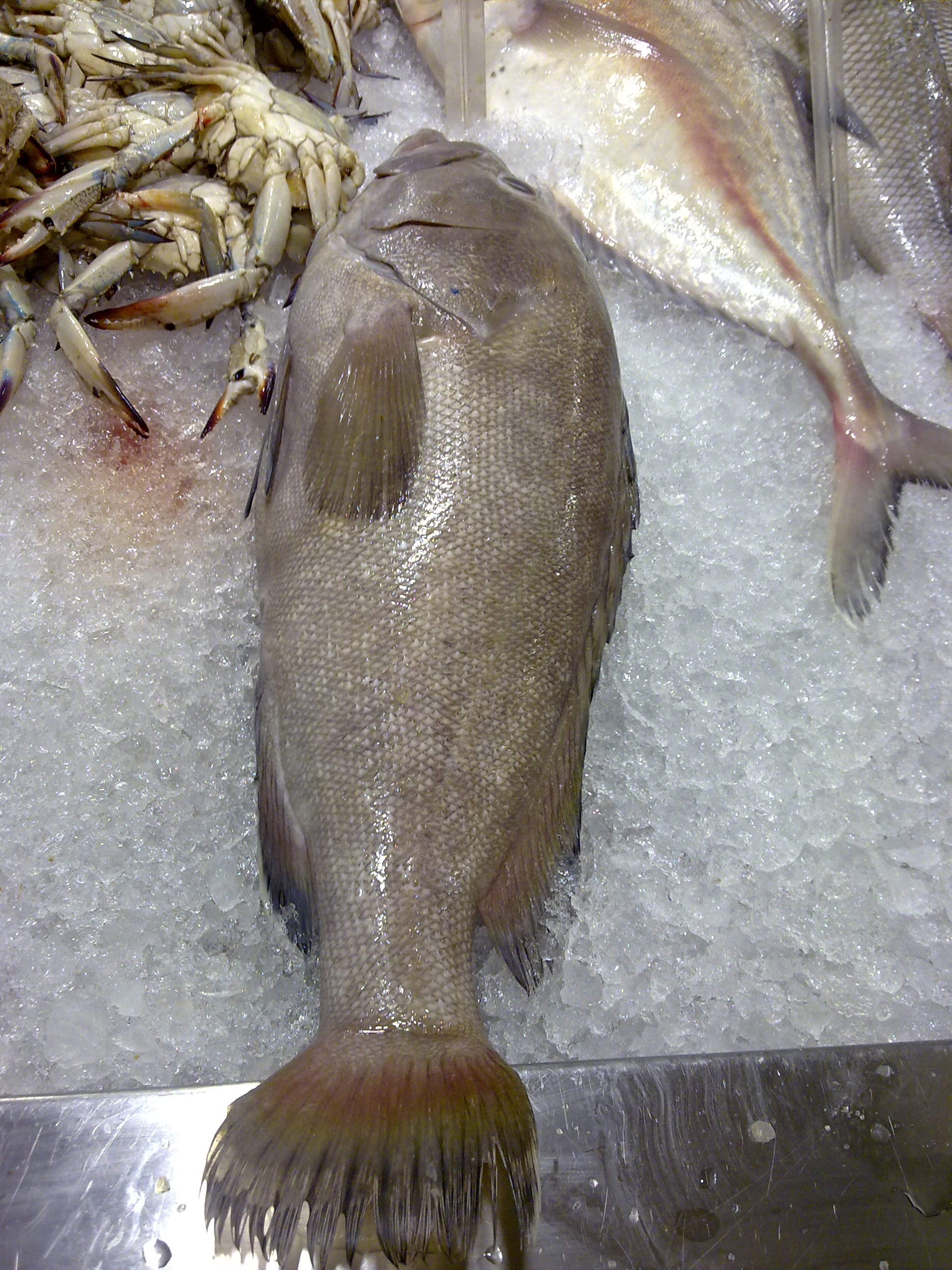 This media file is uploaded with Malayalam loves Wikimedia event - 3. kuwait